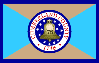 Cumberland County, New Jersey Flag